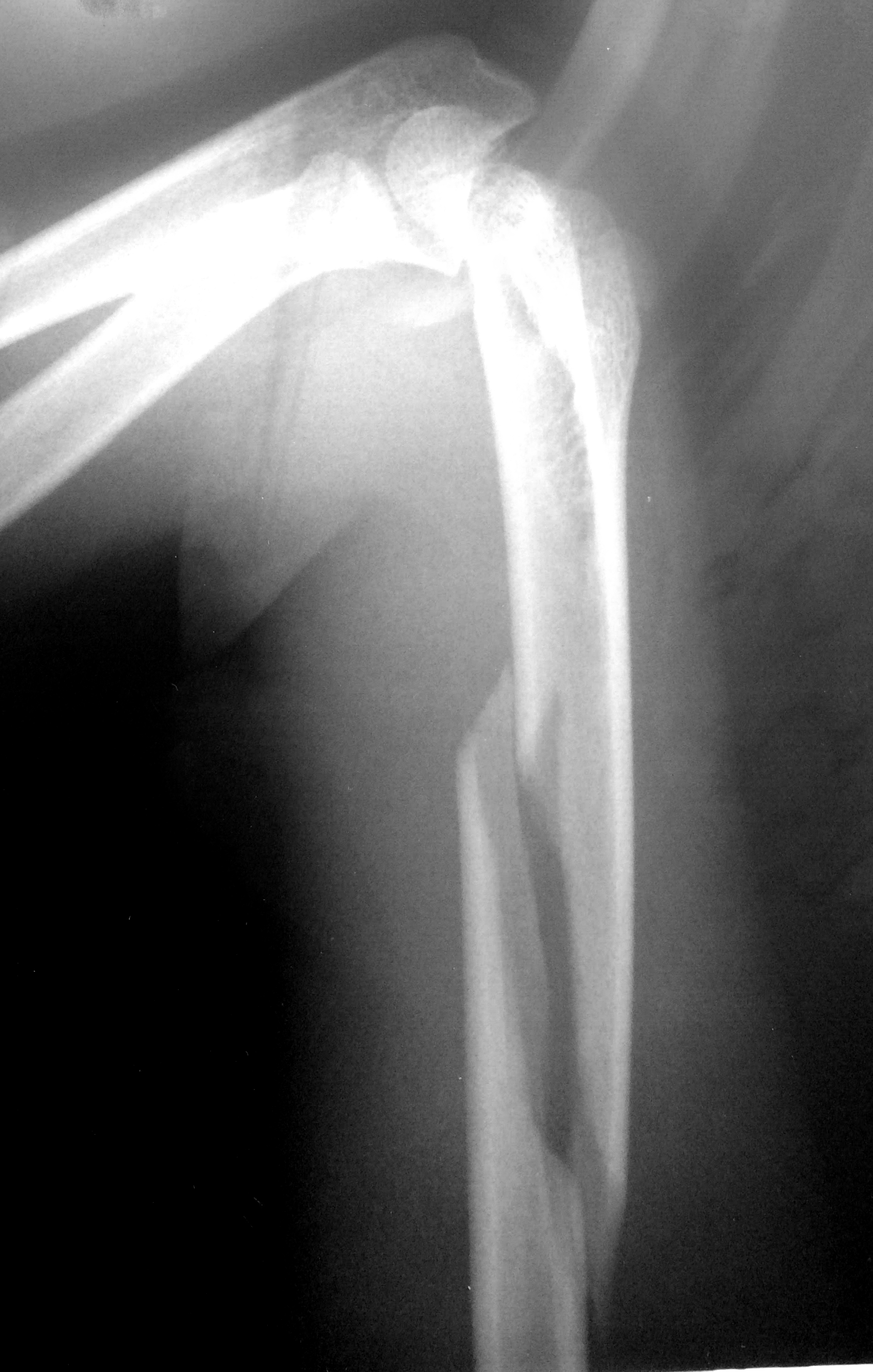 Displaced humerus fracture